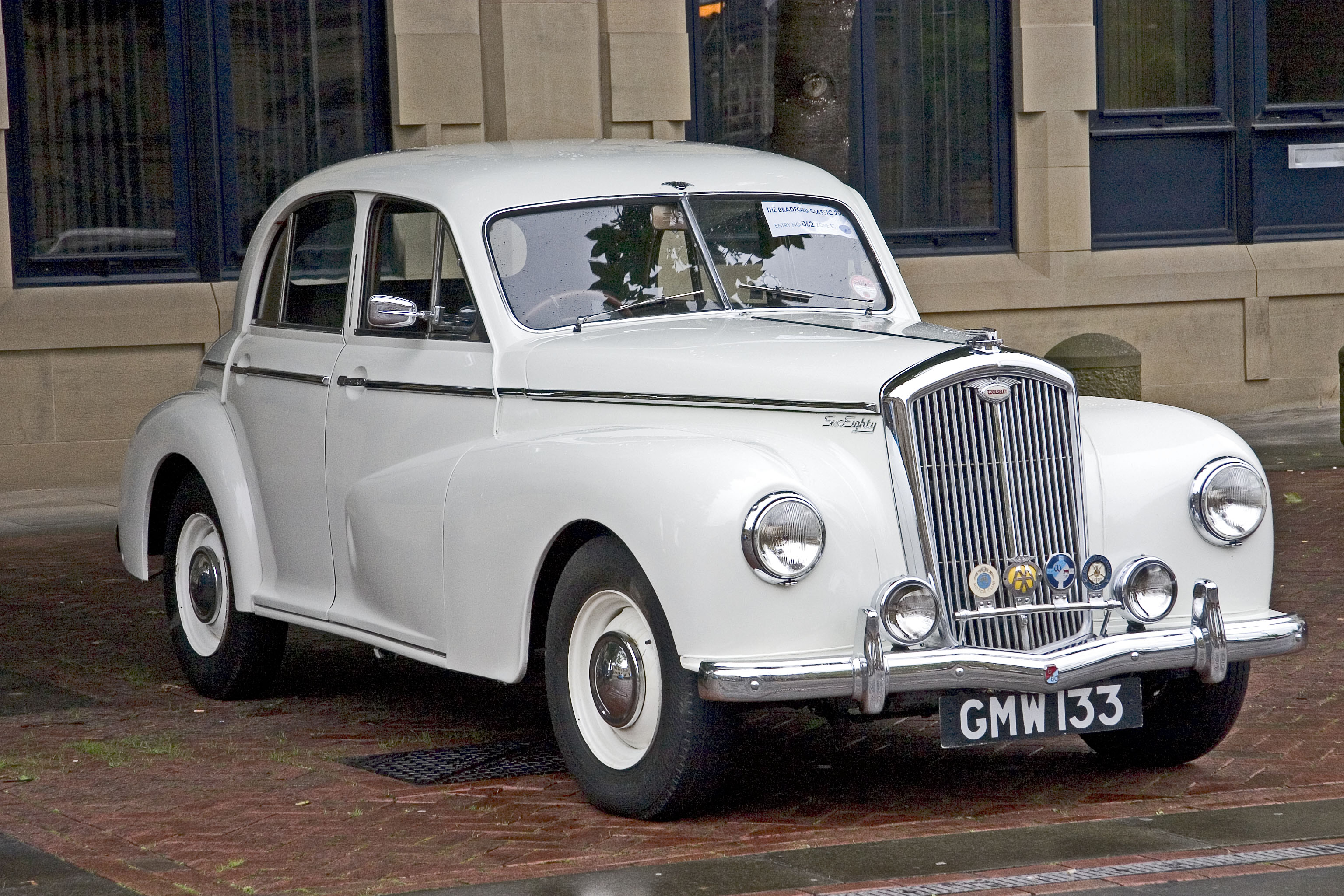 Morris had also designed larger cars using the same "poached egg" styling as the Minor for the Morris Oxford MO and its longer sibling the Morris Six MS. There were Wolseley versions of these cars, and the long bonneted Morris Six was turned into an elegant Wolseley Six Eighty. Whereas the Morris Six was hard to sell, the Big Wolseley made quite a few pounds shillings and pence for the company, and was a favourite with Police forces in Britain.